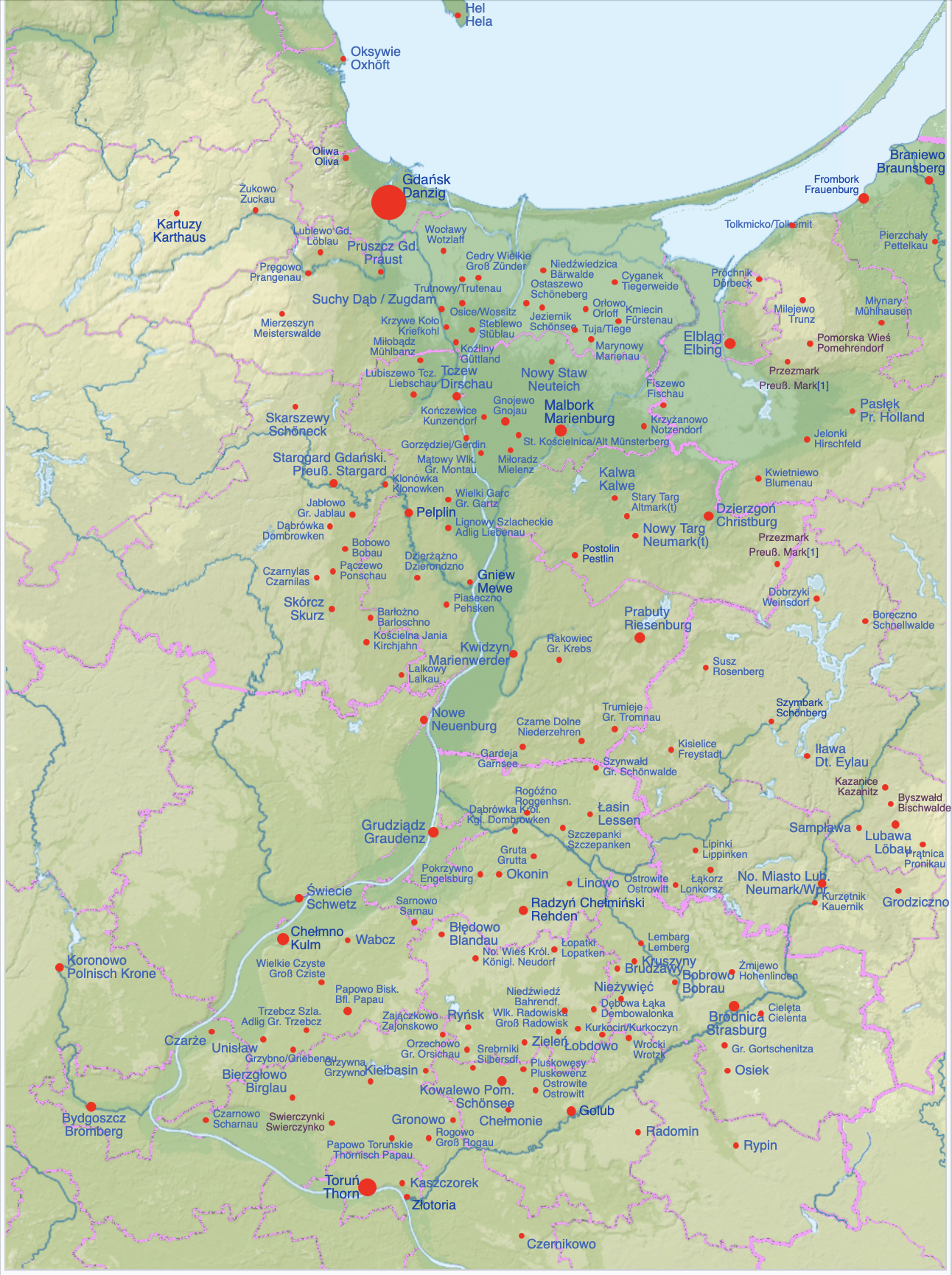 Detailed distribution of Brick Gothic in the region around lower Vistula river